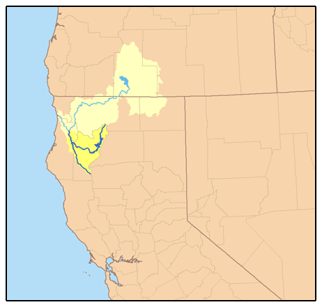 This is a map of the Trinity River watershed. I, Pfly, made it, based on USGS GIS data.